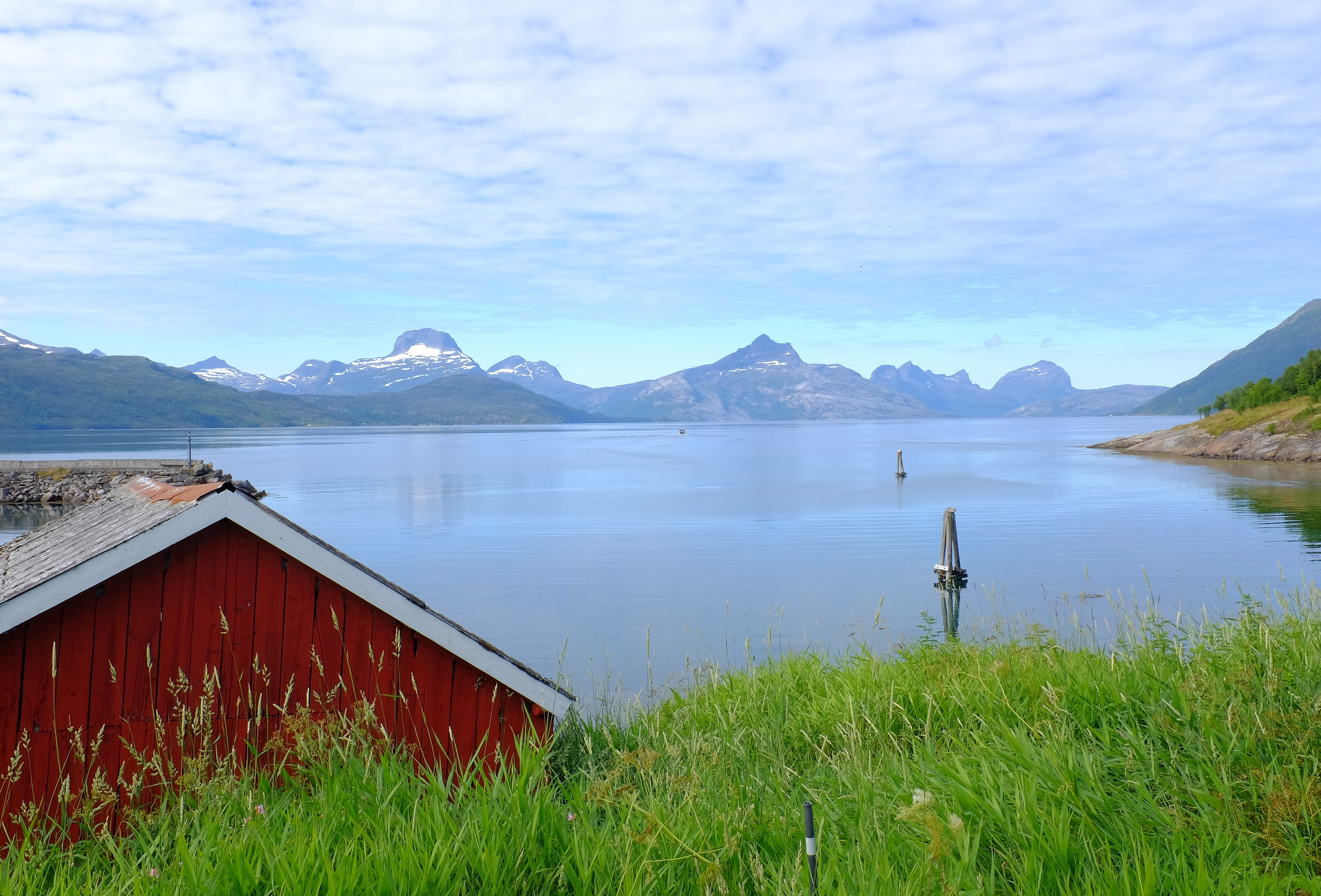 Sørfolda fjord seen from Styrkesvik bay, Sørfold, Nordland, Norge. The area is known for its hundreds of mountain peaks and many fjords.